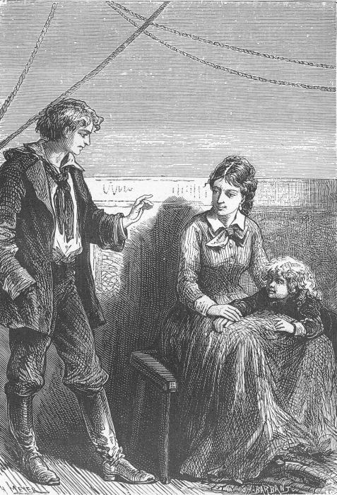 An ilustration from "Dick Sand, A Captain at Fifteen" by Jules Verne painted by Henri Meyer.